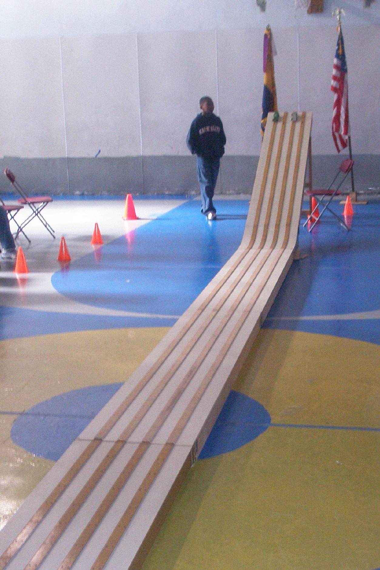 Pinewood Derby track at St. Francis de Sales Roman Catholic Church